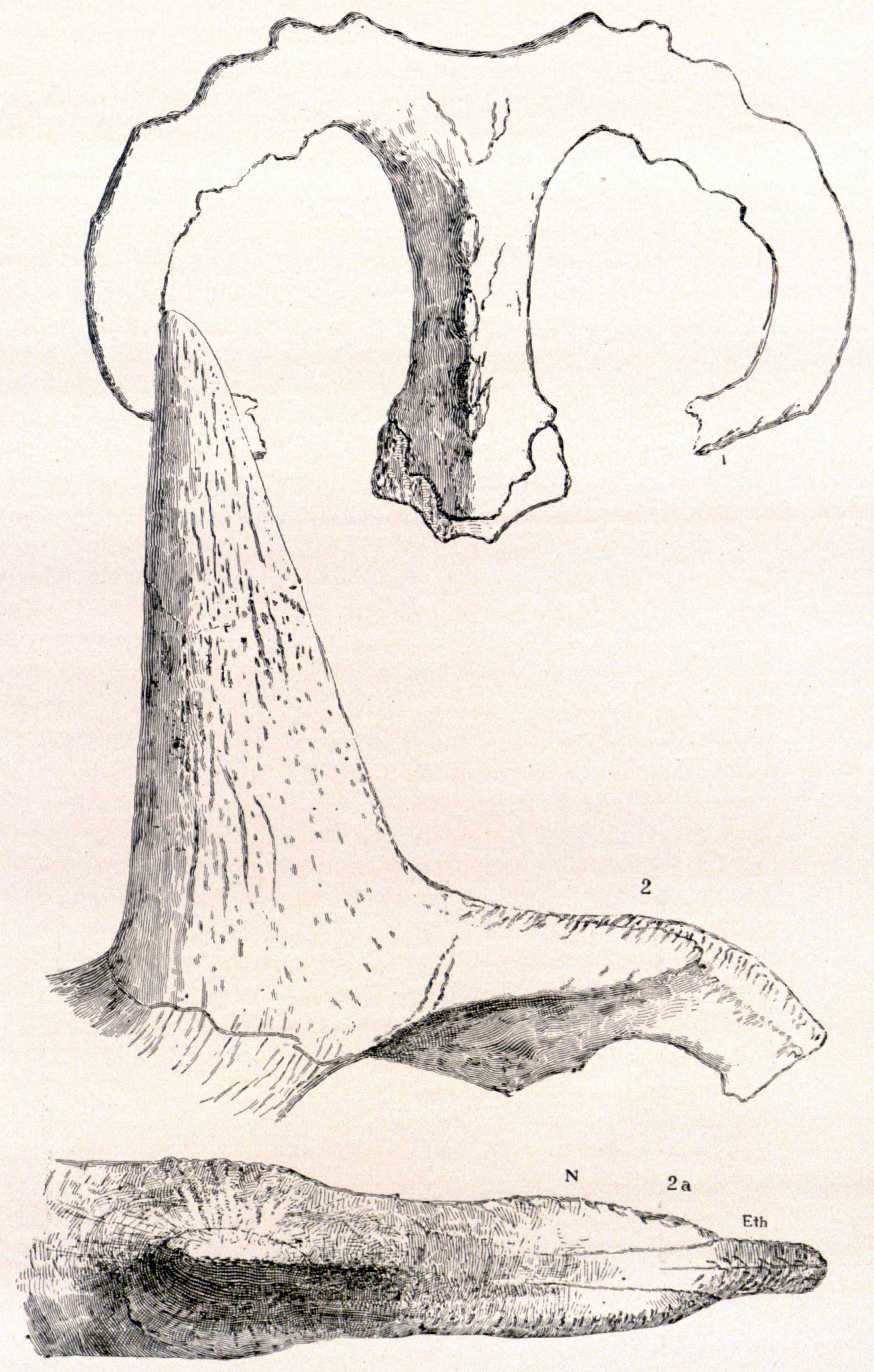 Holotype specimens of Monoclonius crassus (1), AMNH 3998, and M. sphenocerus (2), AMNH 3989.